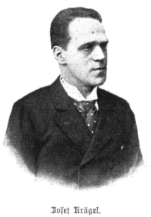 Josef Kraegel (1853-1932)